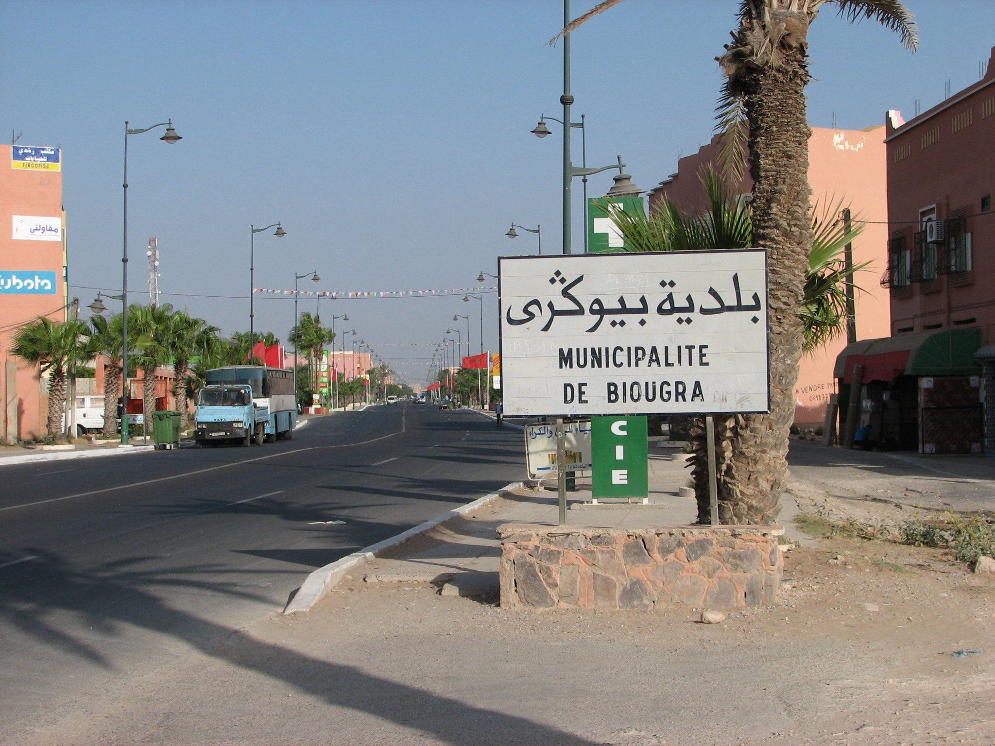 Town sign of Biougra when coming from direction Aït Melloul. The town sign at this location was removed around 2018.